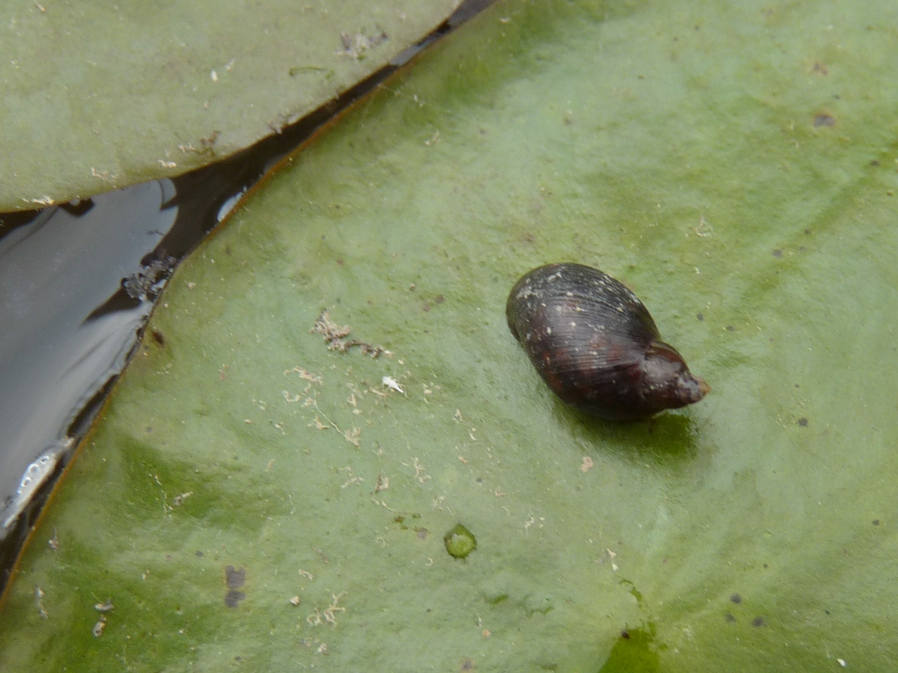 Pseudosuccinea columella